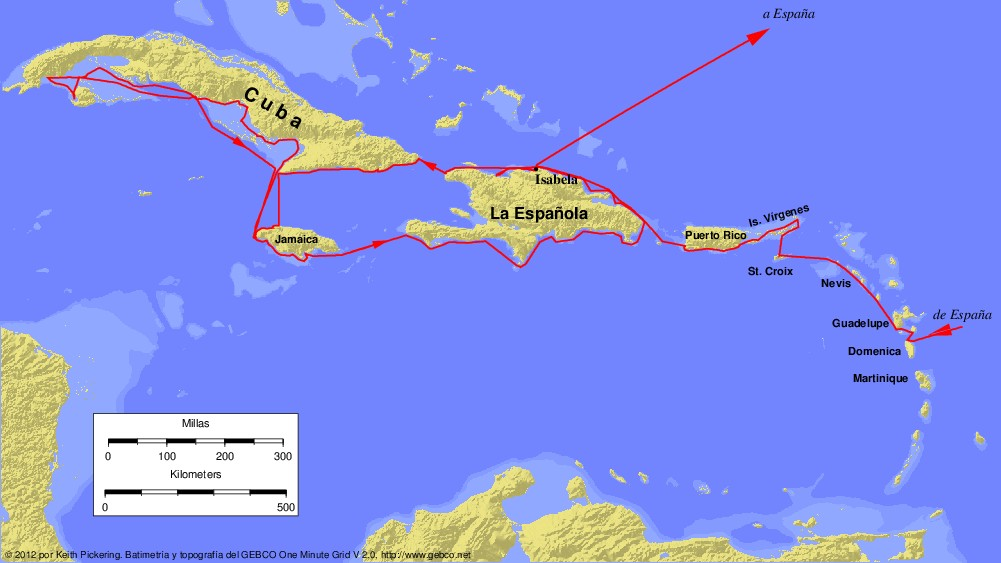 Second voyage of Christopher Columbus